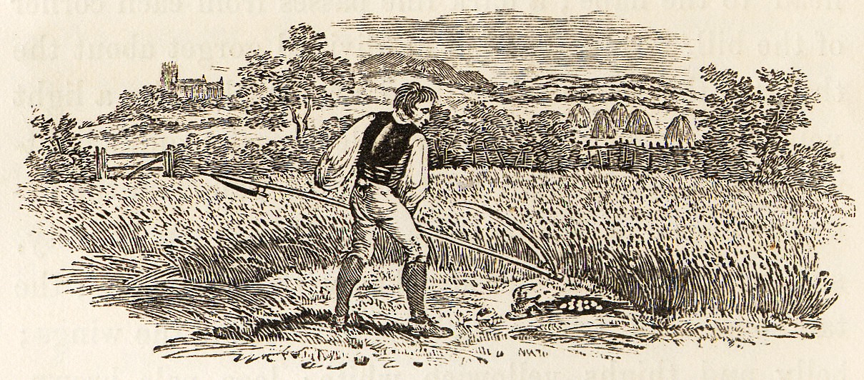 Tail-piece woodcut for 'The Partridge' in Thomas Bewick's History of British Birds, Volume 1, Land Birds, 1797. The woodcut shows a reaper seeing that he has just killed a partridge which was sitting on a nest of a dozen eggs in the cornfield.